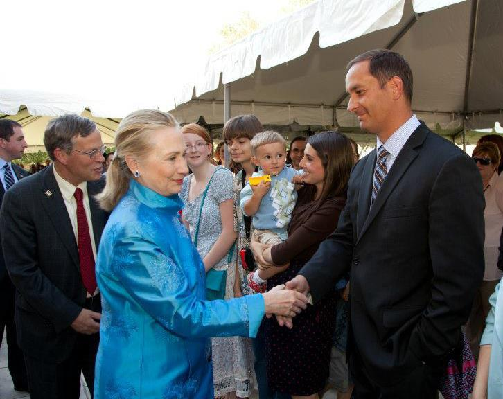 CPT Aaron Isaacson, U.S. Bilateral Affairs Officer in Armenia, greets Secretary of State Hillary Clinton during a trip to Armenia in June 2012.